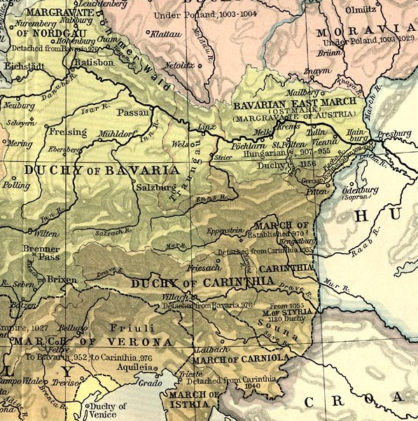 Cropped version of Central Europe, 919-1125 (843K) [p.62-63] to show Marches on Eastern border